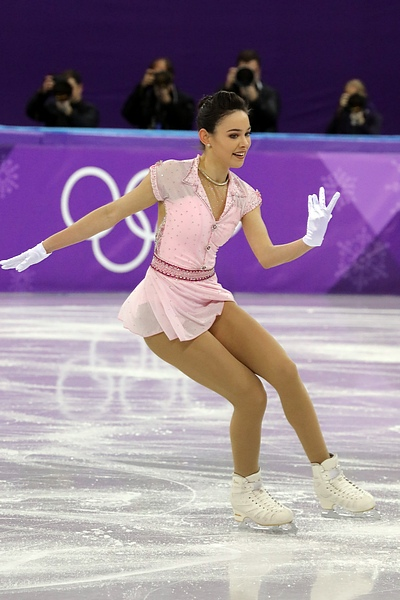 Kailani Craine at the 2018 Olympics - SP